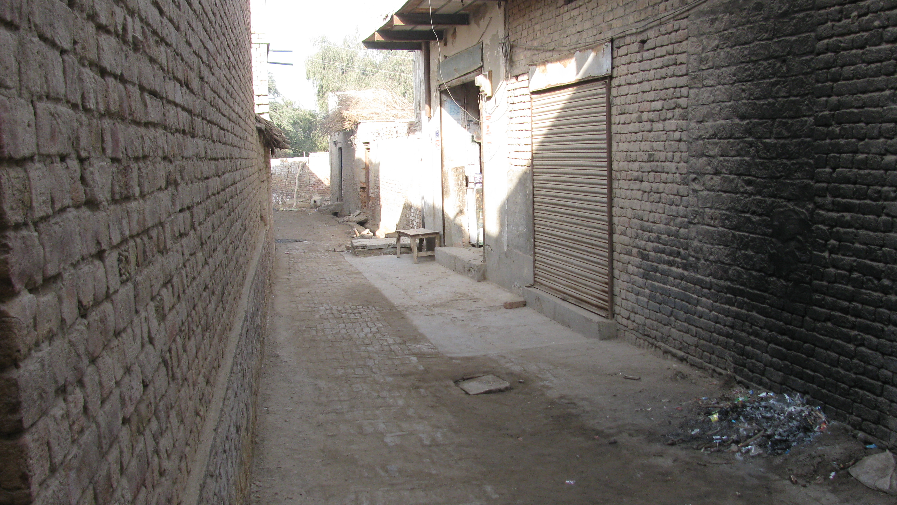 A street View, there is a shop & Ahead of this street goes towards Masjid.